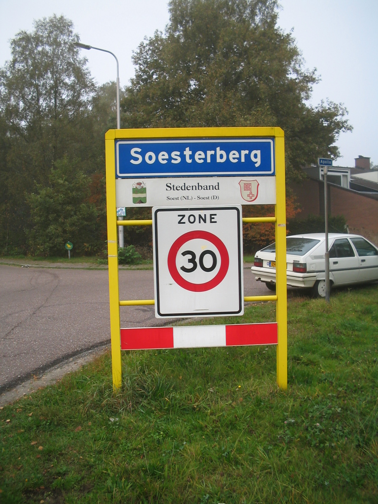 entry Soesterberg, village in the Netherlands